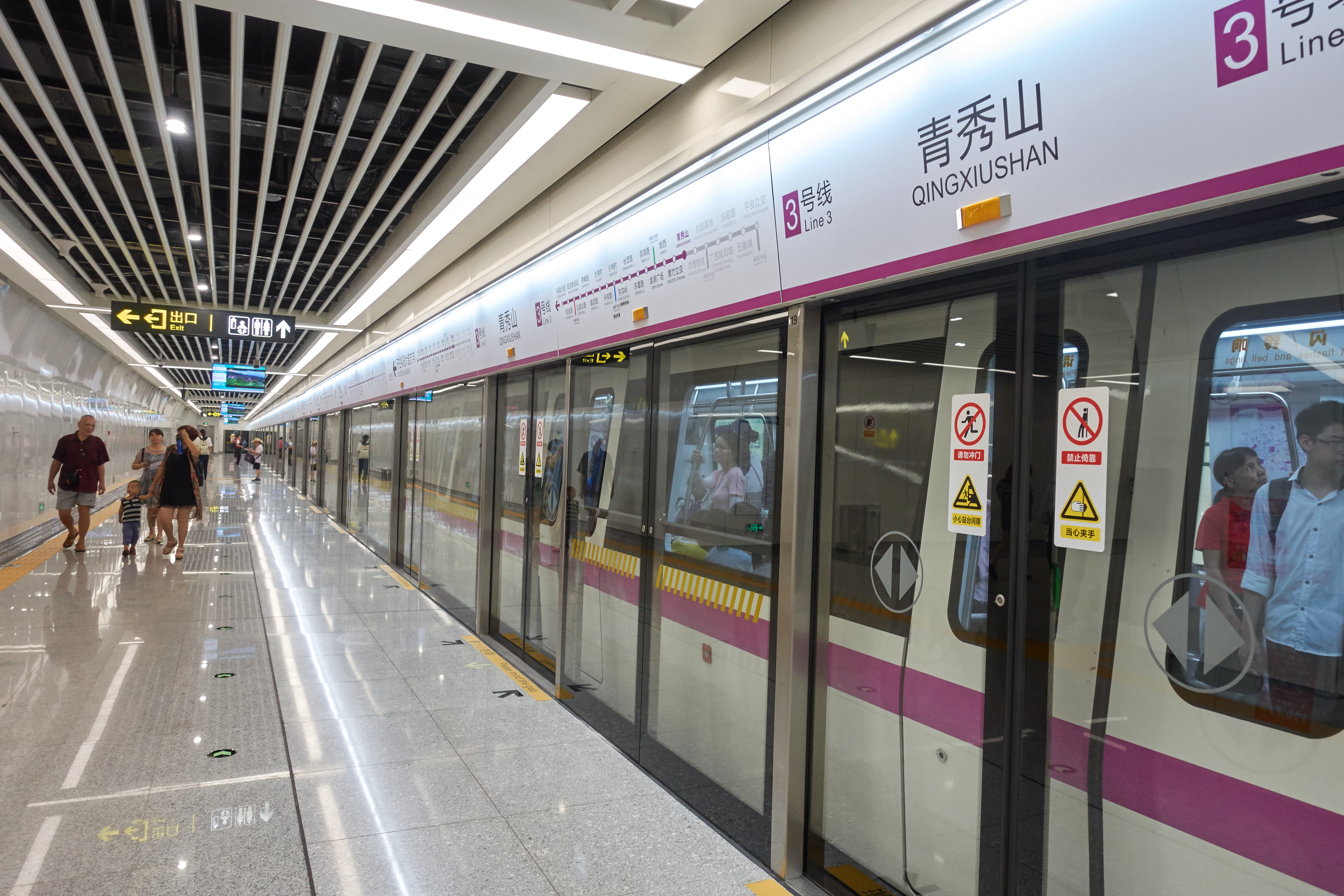 Nanning Metro Line 3 - Qingxiushan Station's Platform - Destination to KeYuanDaDao.